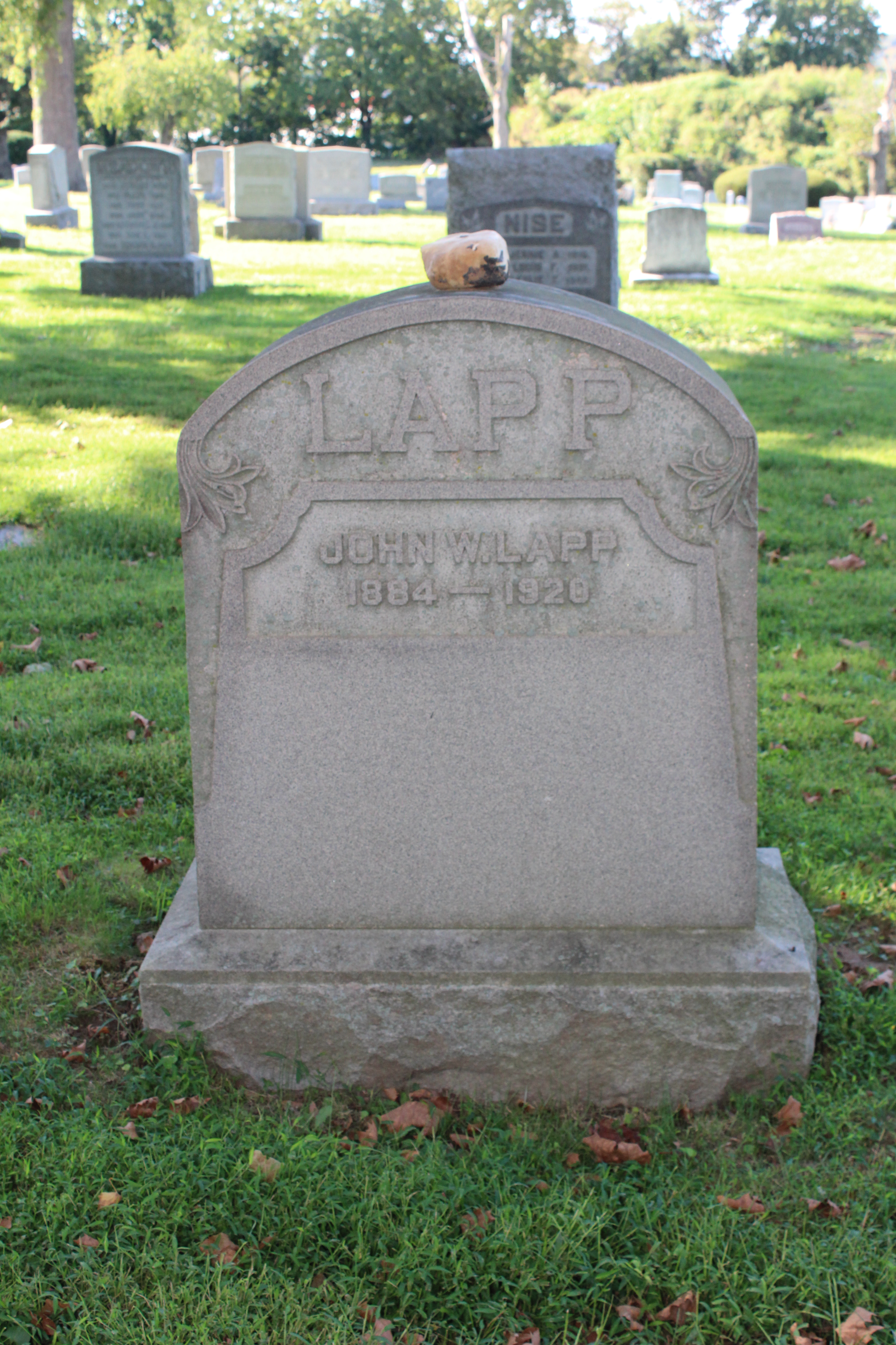 Jack Lapp Gravestone in Mount Peace Cemetery in Philadelphia, Pennsylvania. Photo taken September 2019